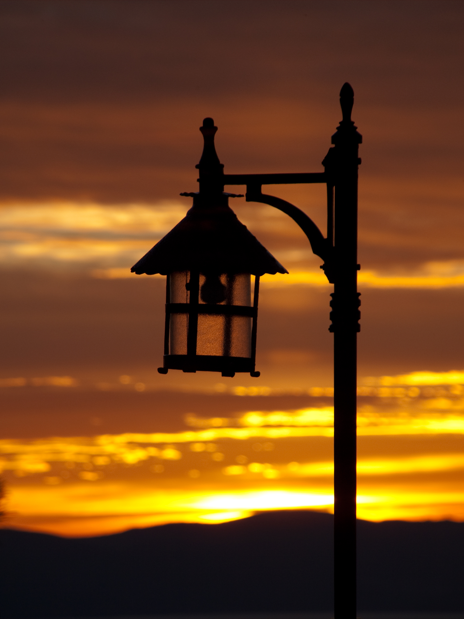 Public lighting. Park lantern in the sunset, Ayvalik Turkey